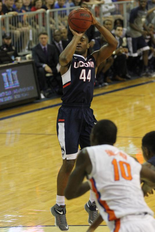 UCON vs Florida Gators 2015/01/03